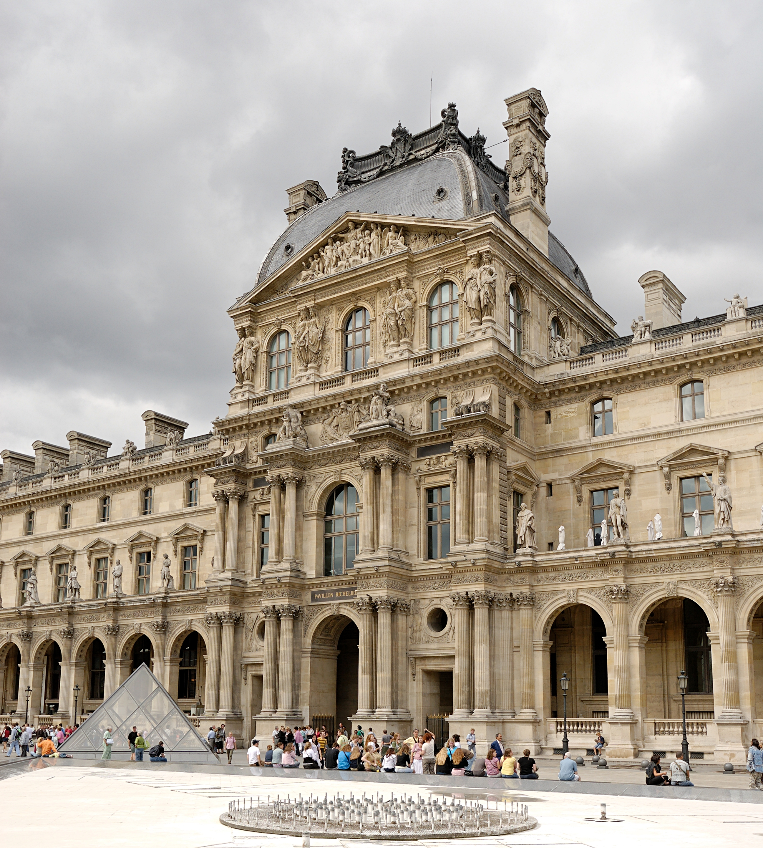 The Pavillon Richelieu in the Napoleonic part of the Louvre, Paris.